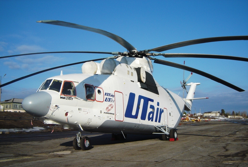 Mil Mi-26T, Ust-Kut Airport, Irkutsk oblast, Russia